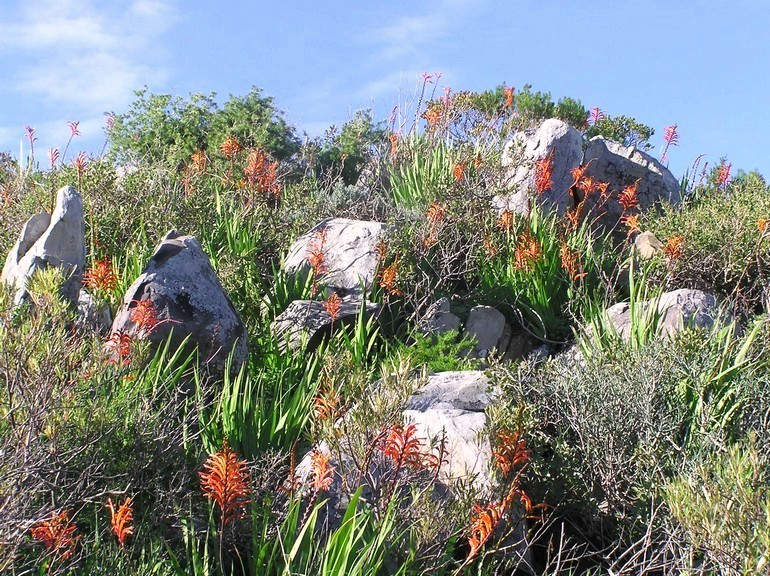 Swartland Shale Renosterveld vegetation growing at Tygerberg Reserve. City of Cape Town.